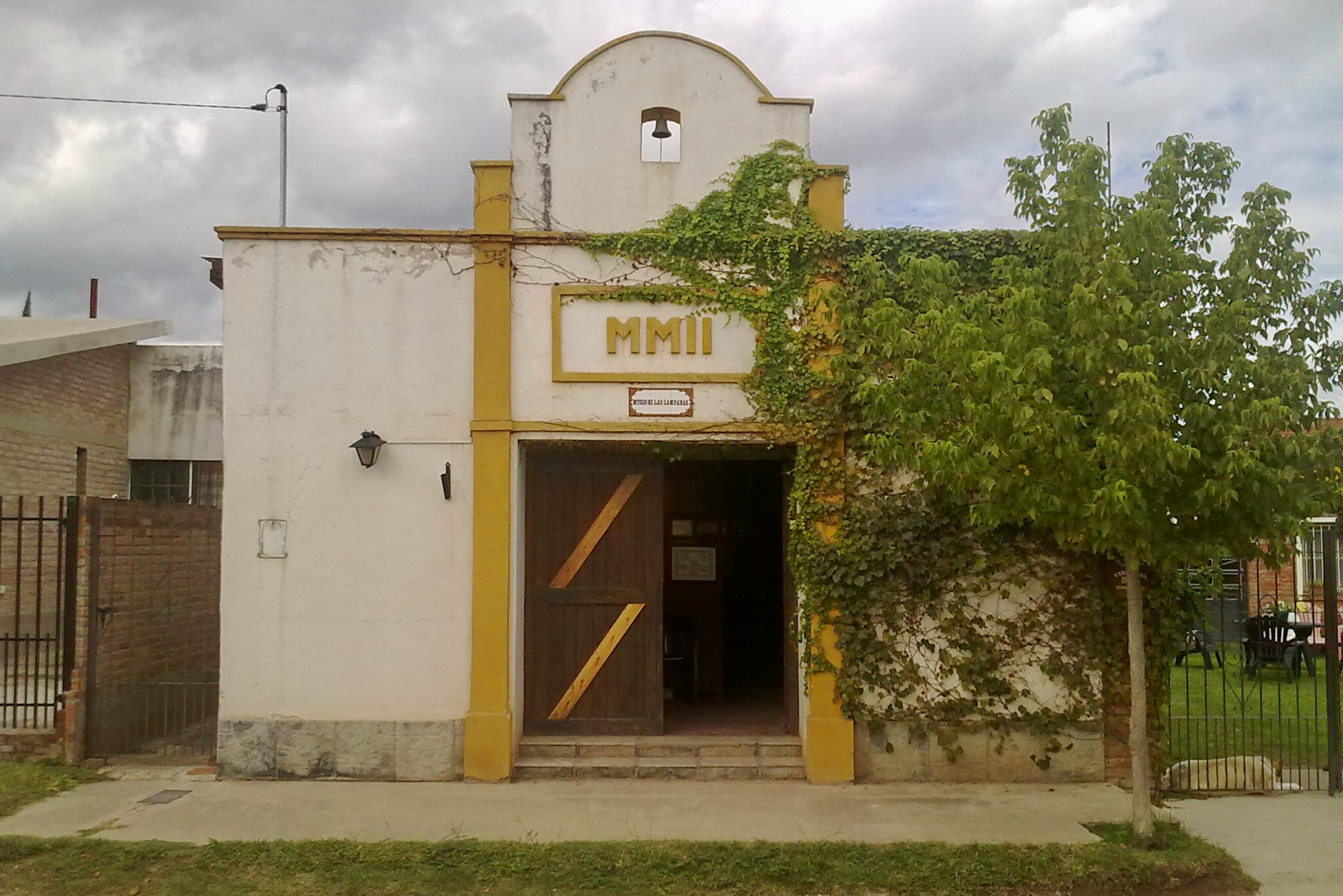 Entrance of the Museum of the Bells in Mina Clavero, Córdoba, Argentina.